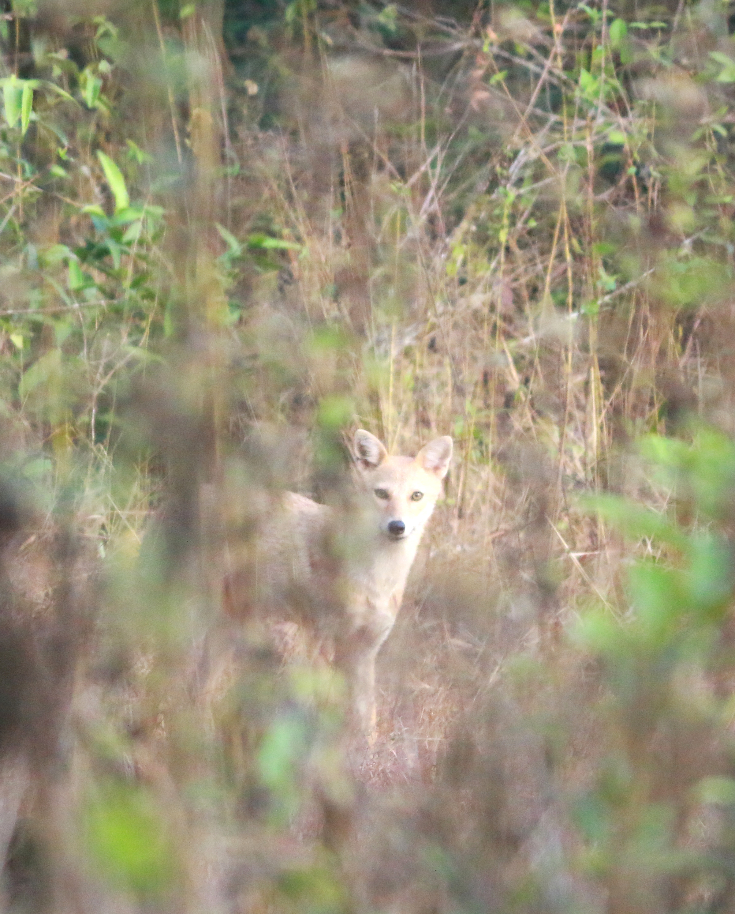 കുറുനരി,Golden Jackal or Indian Jackal, canis aureus indicus , jackal in white colour